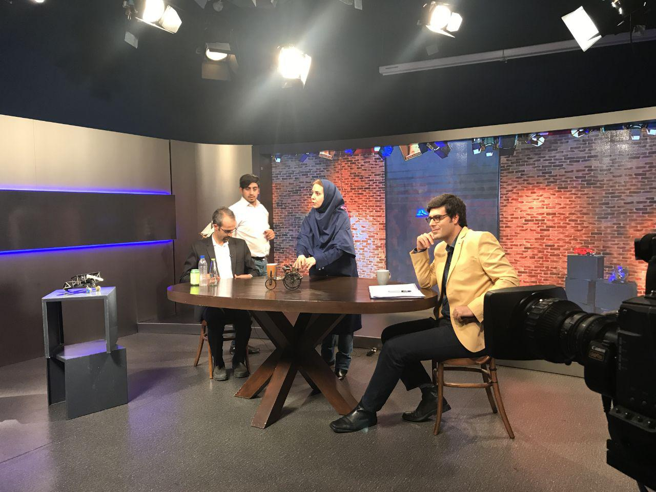 A shot from behind the scene of IRIB- TV4 program Charkh, aired live on 12 August 2017. Presenter Shariar Rabbani host, and Ehsan Houshfar, guest